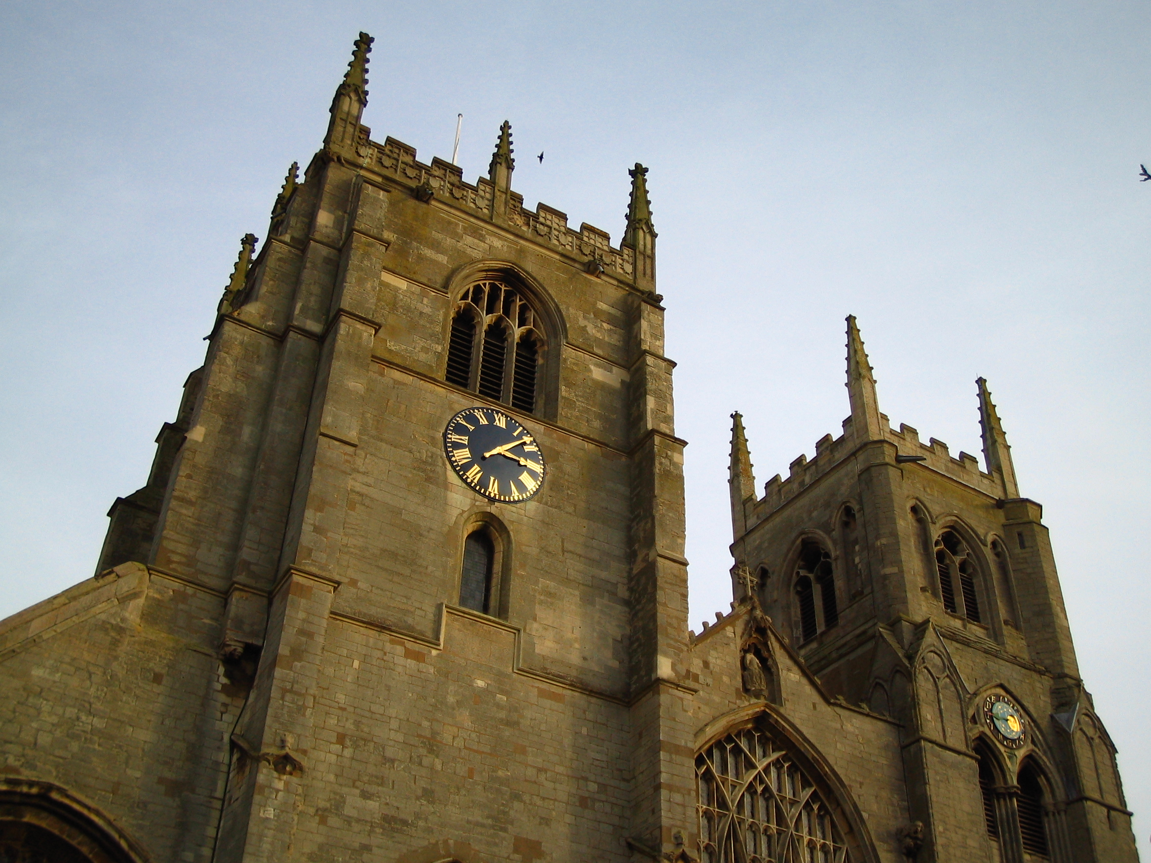 Upper stages of the west towers of St Margaret's parish church, King's Lynn, Norfolk, seen from the west